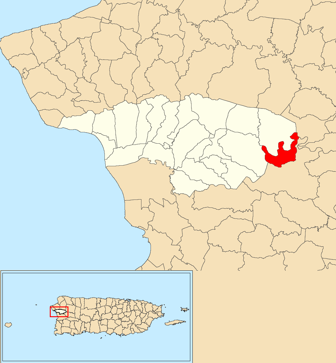 Río Arriba, Añasco, Puerto Rico locator map